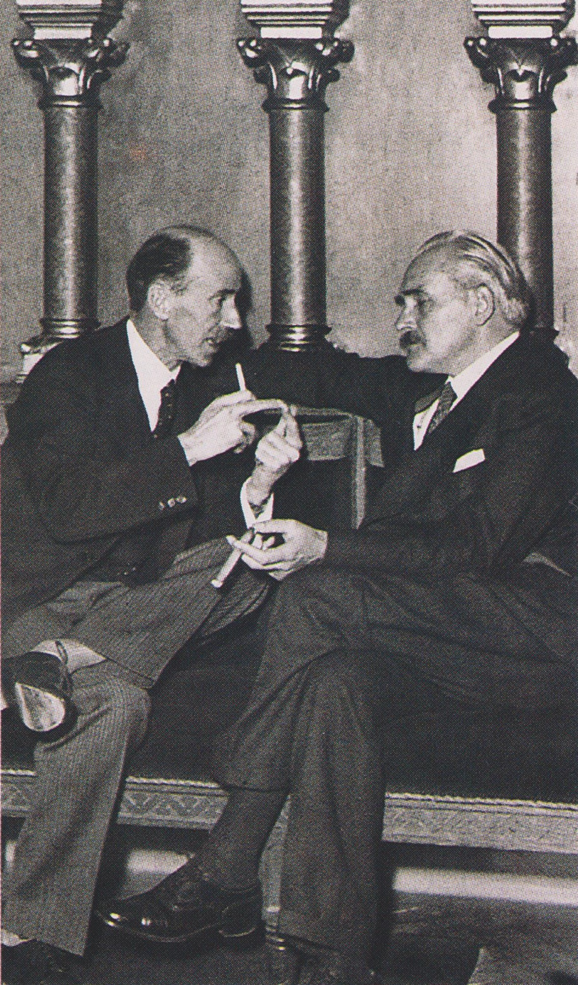 Prime Ministers István Bethlen and Miklós Kállay in the Hungarian Parliament Building, 1940s